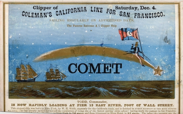 Sailing card for the clipper ship Comet.